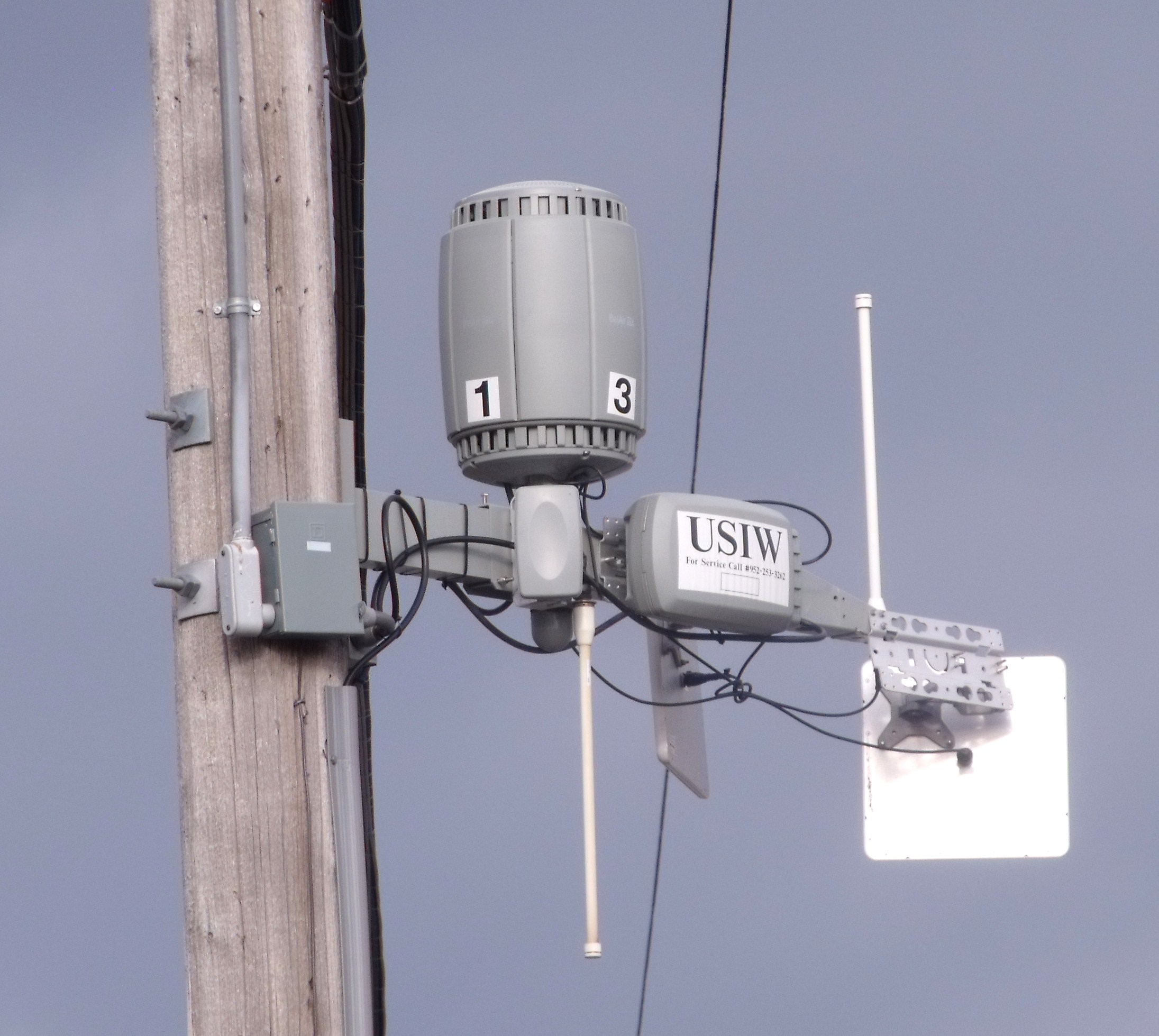 A wireless internet router, part of Minneapolis, Minnesota's broadband wireless internet network run by U.S. Internet.